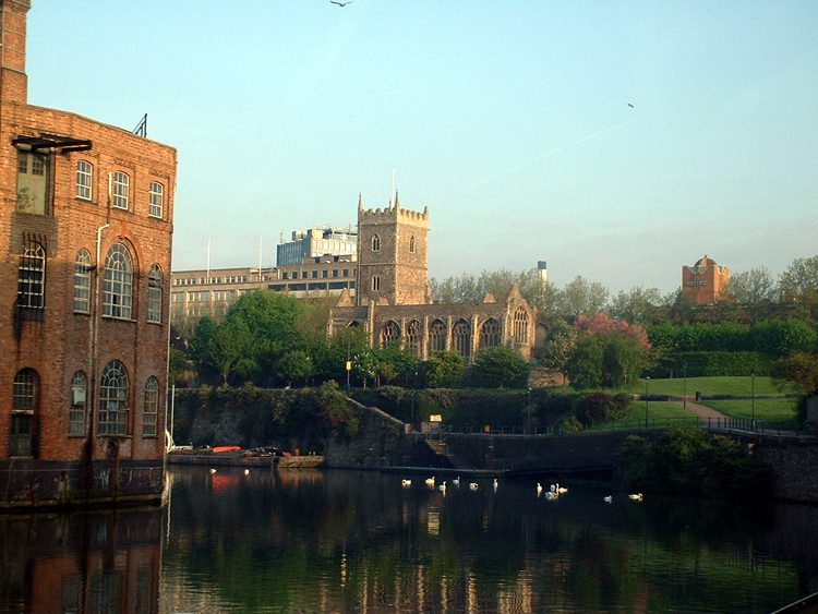 St Peter's Church in Castle Park, Bristol, England. Very early morning, 25 May 2004.